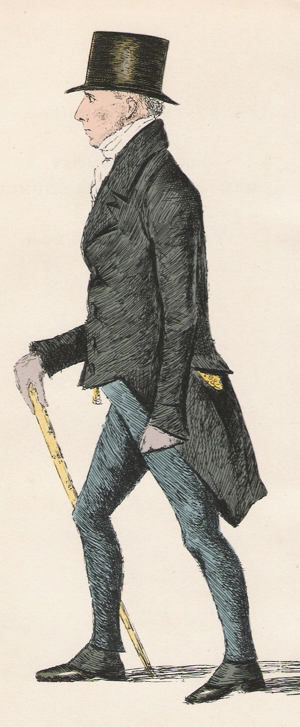 Taken from and Etching in Crombie's Modern Athenians.